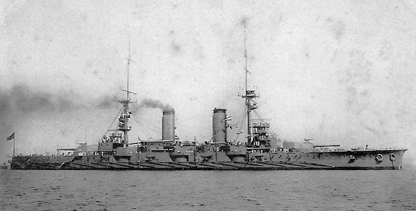 The Japanese battleship Satsuma, launched November 1906, served in 1910-1923